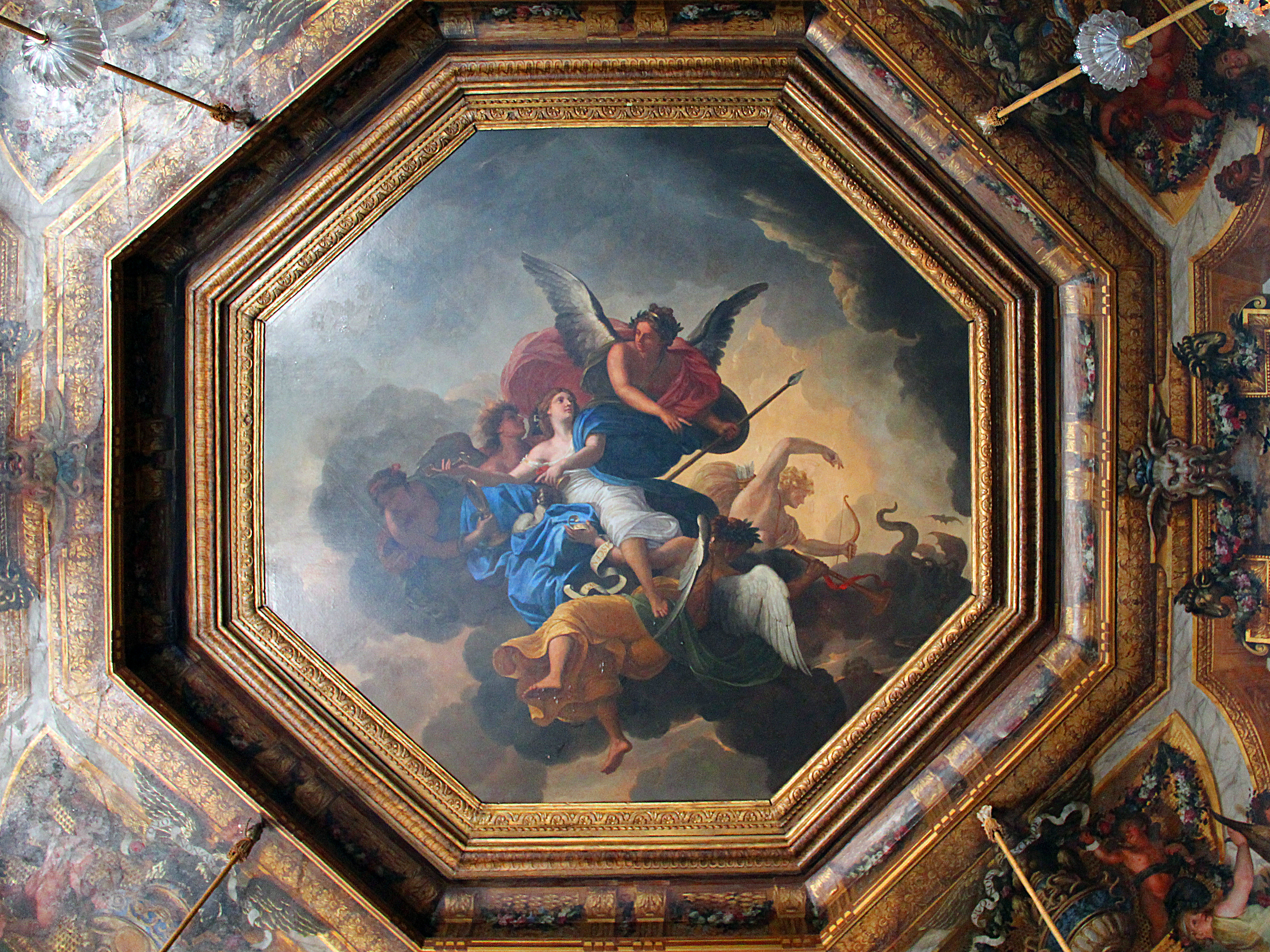 The "Triomphe de la Fidélité" by Charles Lebrun work adorning the ceiling of the Chambre des Muses of the Vaux-le-Vicomte castle (Seine-et-Marne, France).